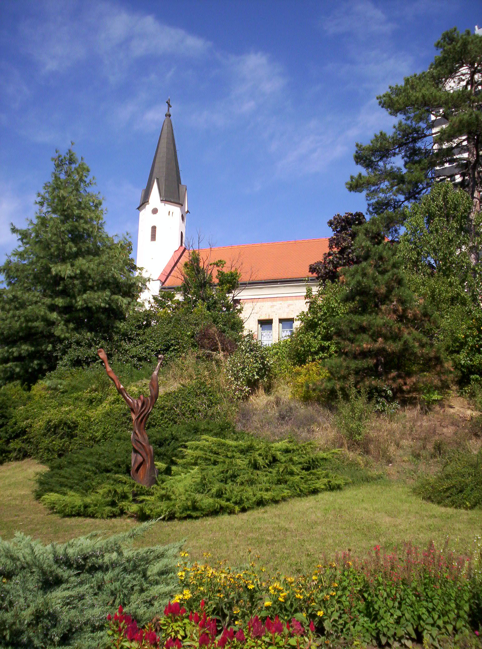 Lutheran Church of Veszprém